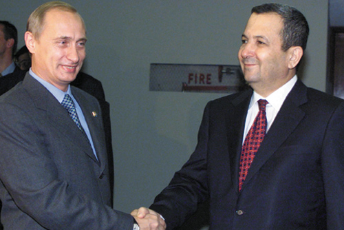 NEW YORK. President Vladimir Putin and Israeli Prime Minister Ehud Barak.